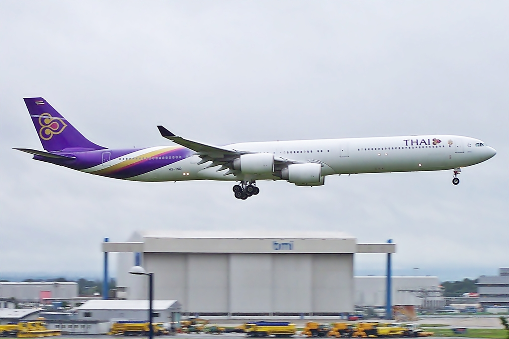 HS-TND A340-600 Thai